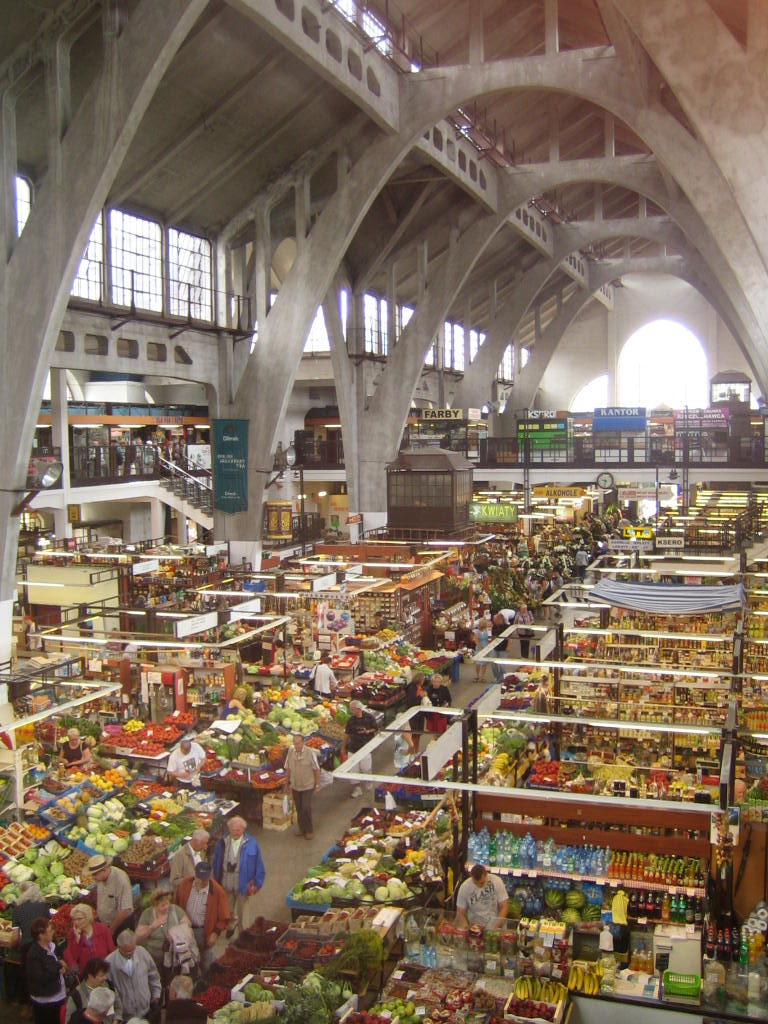 View from the balcony.